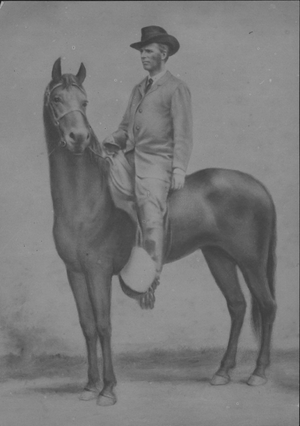 Portrait of Samuel C. Armstrong